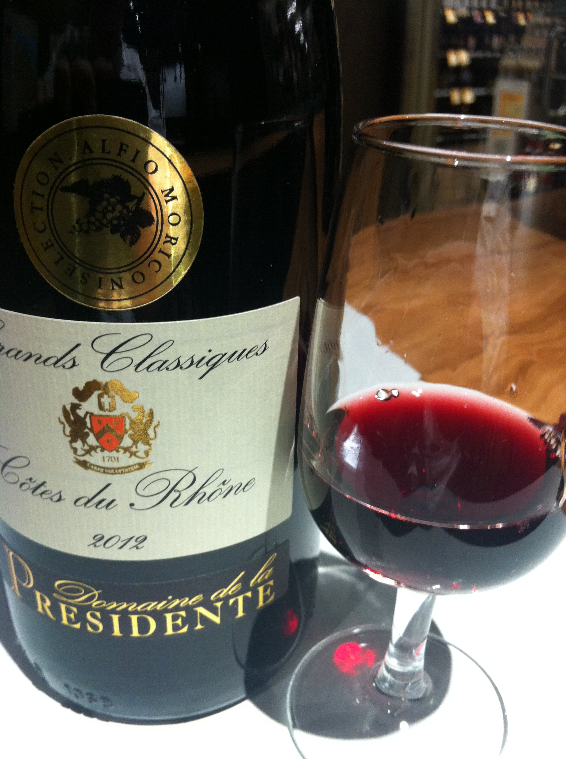 French red blend from the Cote de Rhone region